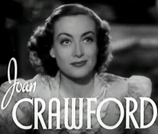 Cropped screenshot of Joan Crawford from the trailer for the film The Last of Mrs. Cheyney